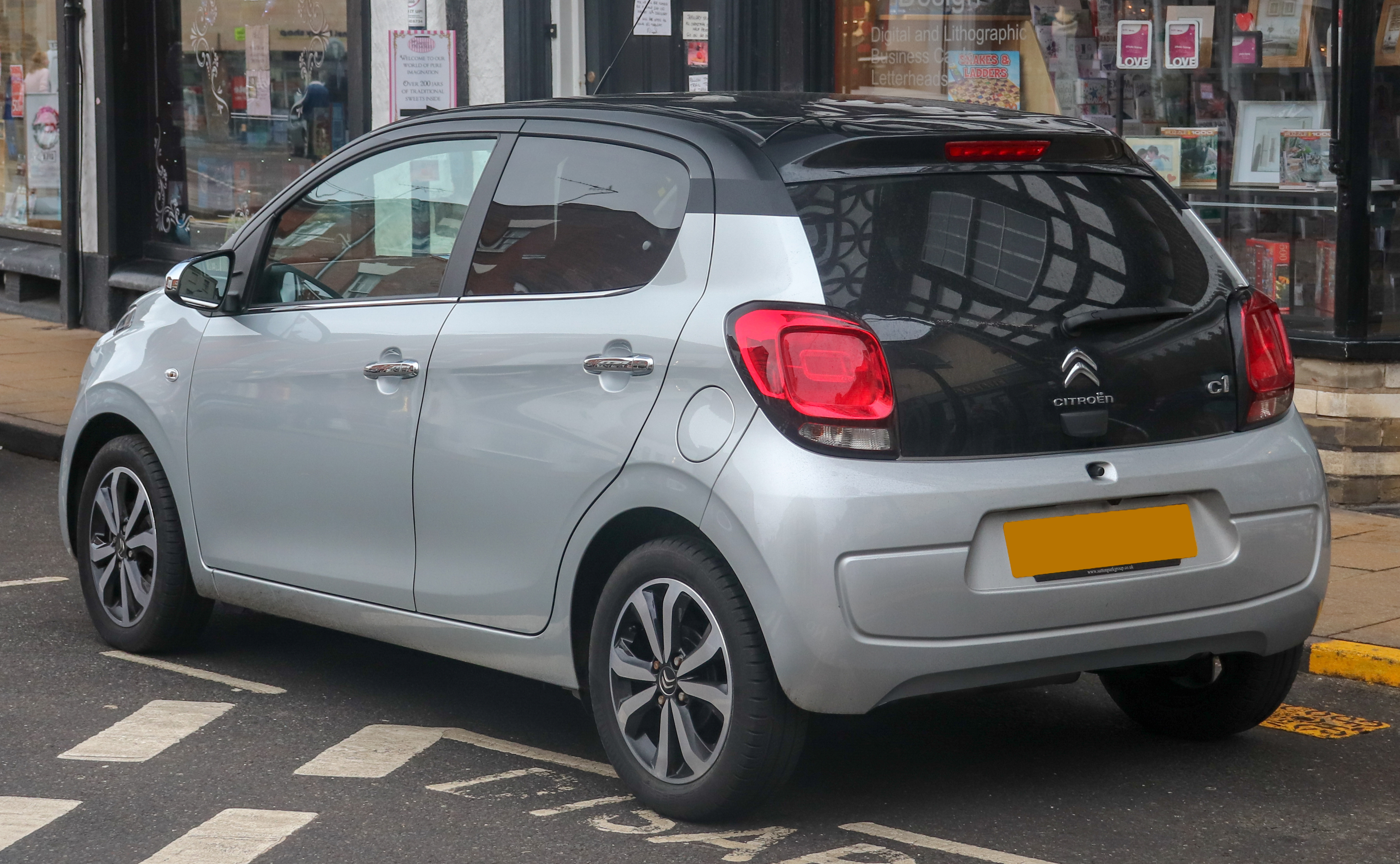 2017 Citroen C1 Flair Puretech 1.2 Rear Taken in Warwick